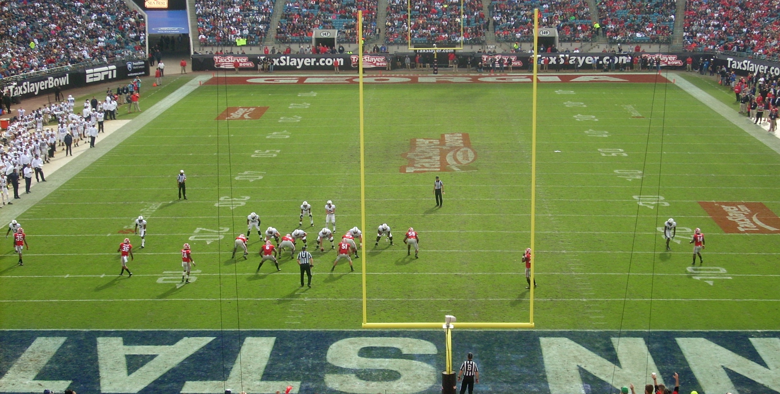 The Penn State Nittany Lions are driving for a touchdown during the 2016 TaxSlayer Bowl at EverBank Field in Jacksonville, Florida. Penn State fell to the Georgia Bulldogs 17 - 24 on January 2, 2016.